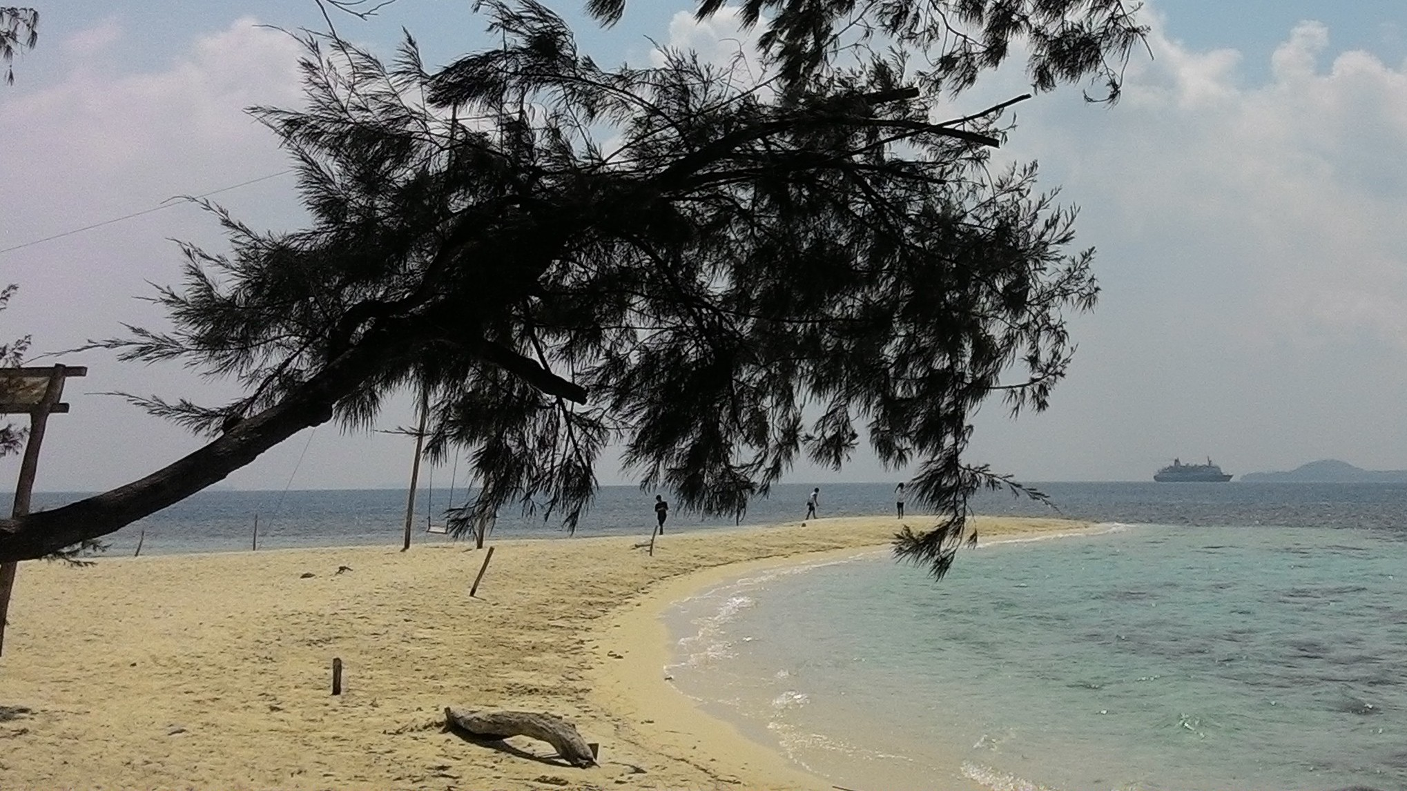 A spit on the north coast of Menjangan Kecil Island.